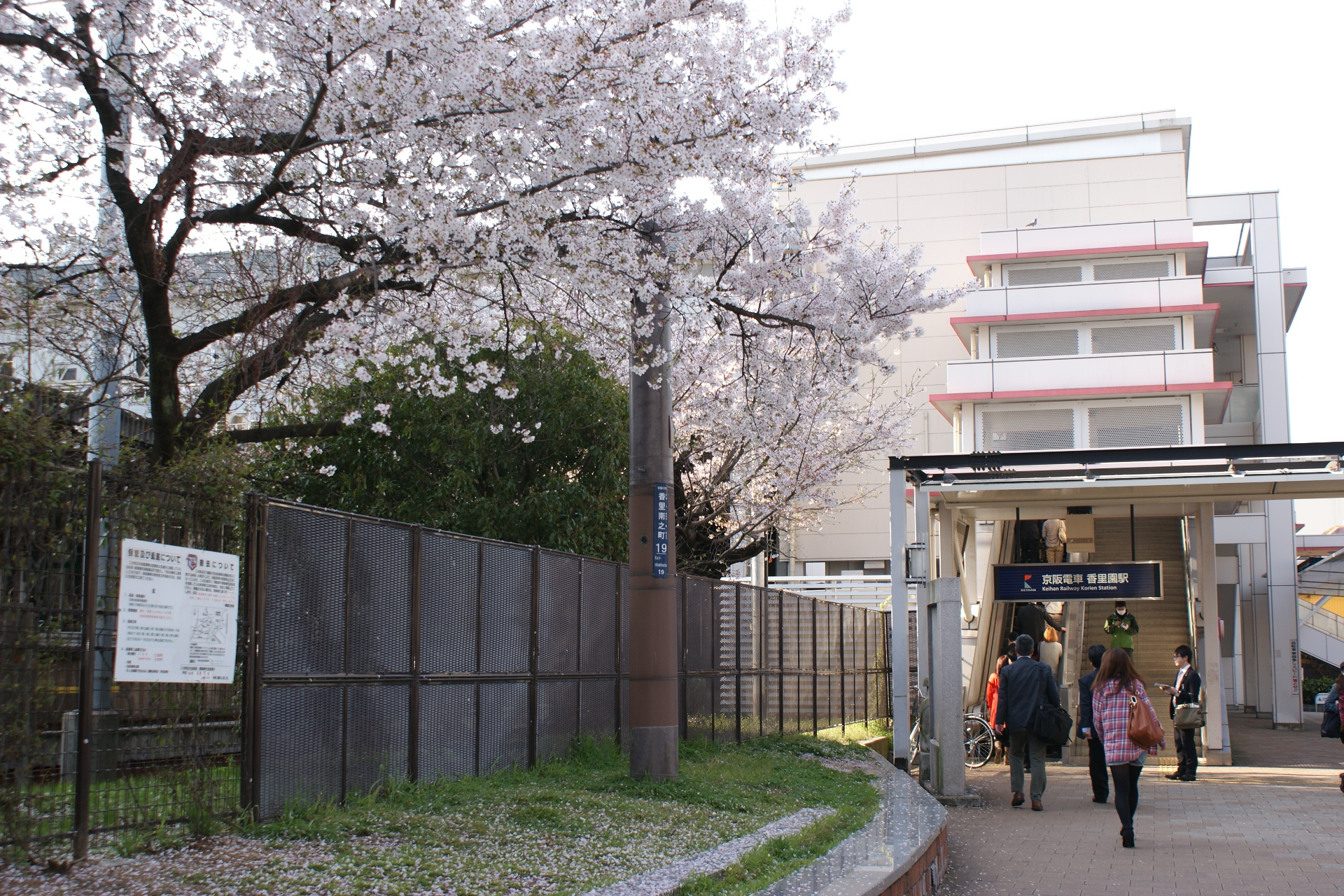 West gate of Korien Station of Keihan Electric Railway Co., Ltd. and cherry blossoms.